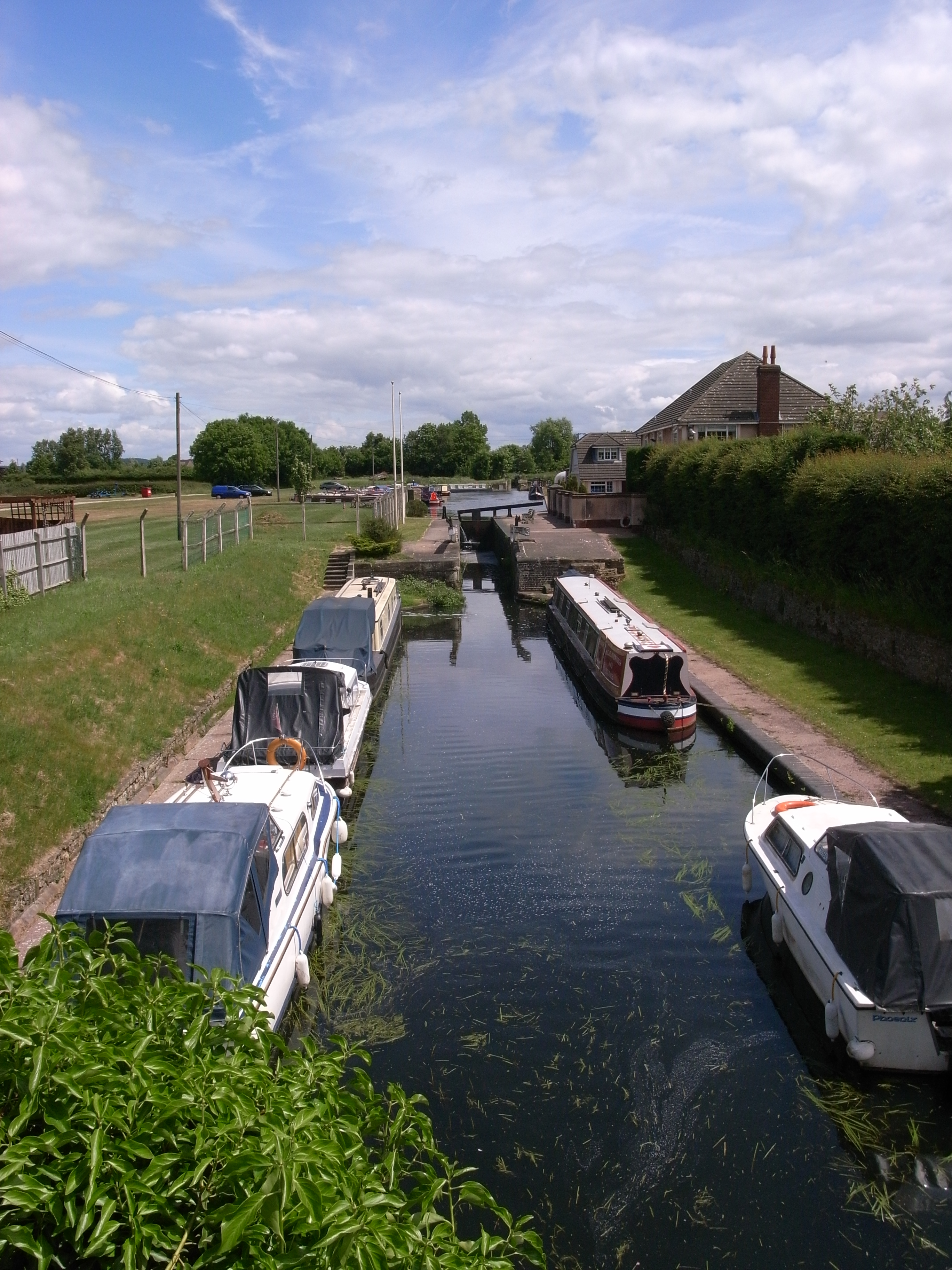 Marina, Lock 1 (and Lock 2, extreme distance) at Hatherton Junction on the Hatherton Canal at Calf Heath, Staffordshire, England.